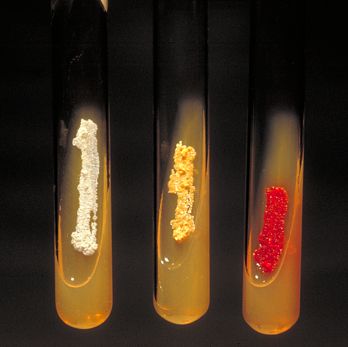 Slant cultures demonstrating variations in colony appearance between aerobic Actinomycetes spp.. White colonies indicate Actinomadura madurae, yellow colonies indicate Nocardia asteroides, and red colonies indicate Micromonospora spp.. Obtained from the CDC Public Health Image Library. Image credit: CDC/Dr. David Berd (PHIL #3078), 1972.